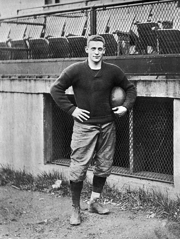 Tex Richards (1889-1918), captain of the undefeated and unscored upon 1910 University of Pittsburgh football team. Led by head coach Joe Thompson, Pitt went 9-0 and outscored its opponents 282-0. Photo from the 1912 Owl student yearbook.